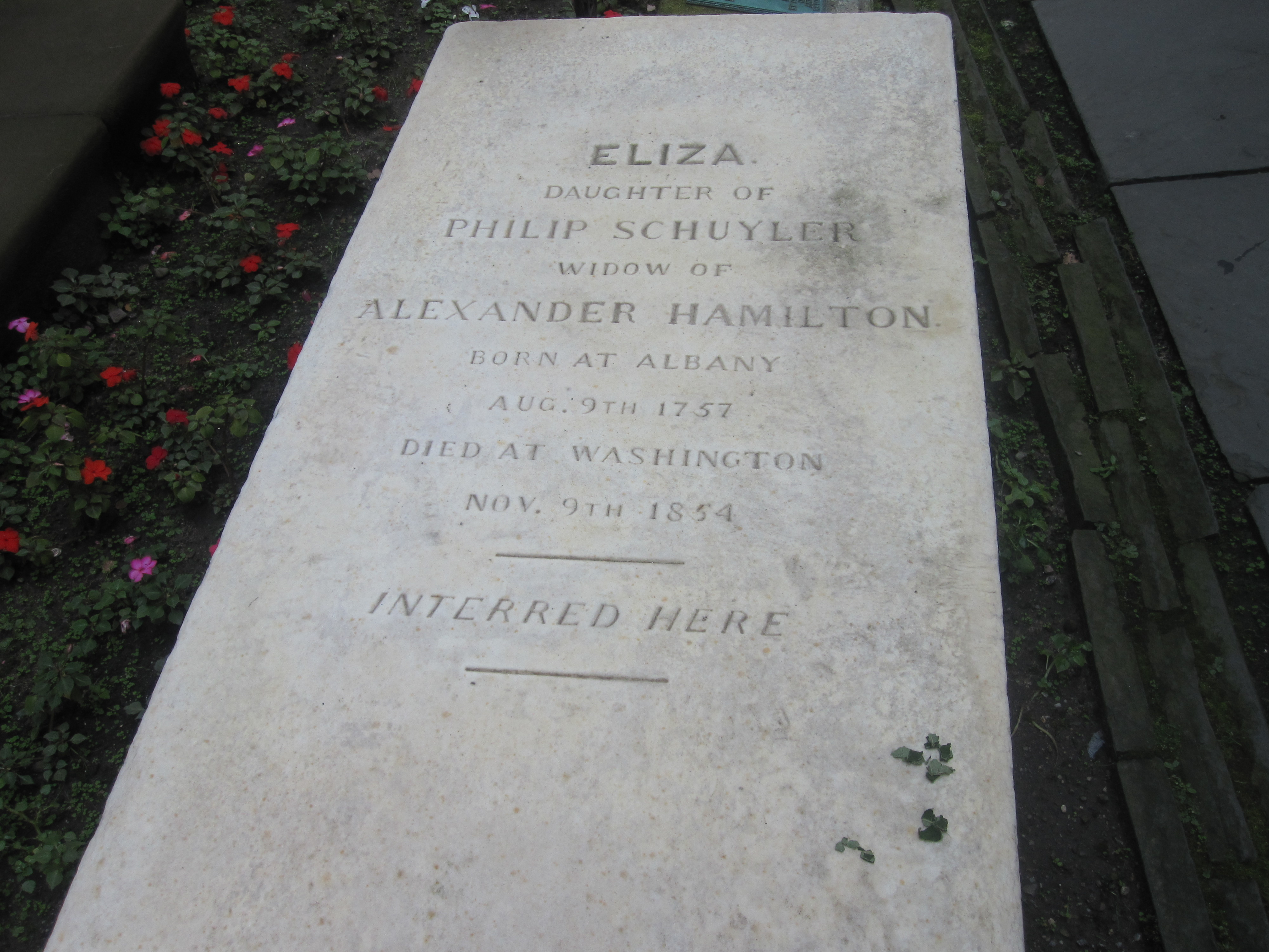 Tomb of Eliza Schuyler Hamilton at Trinity Church Graveyard in New York City